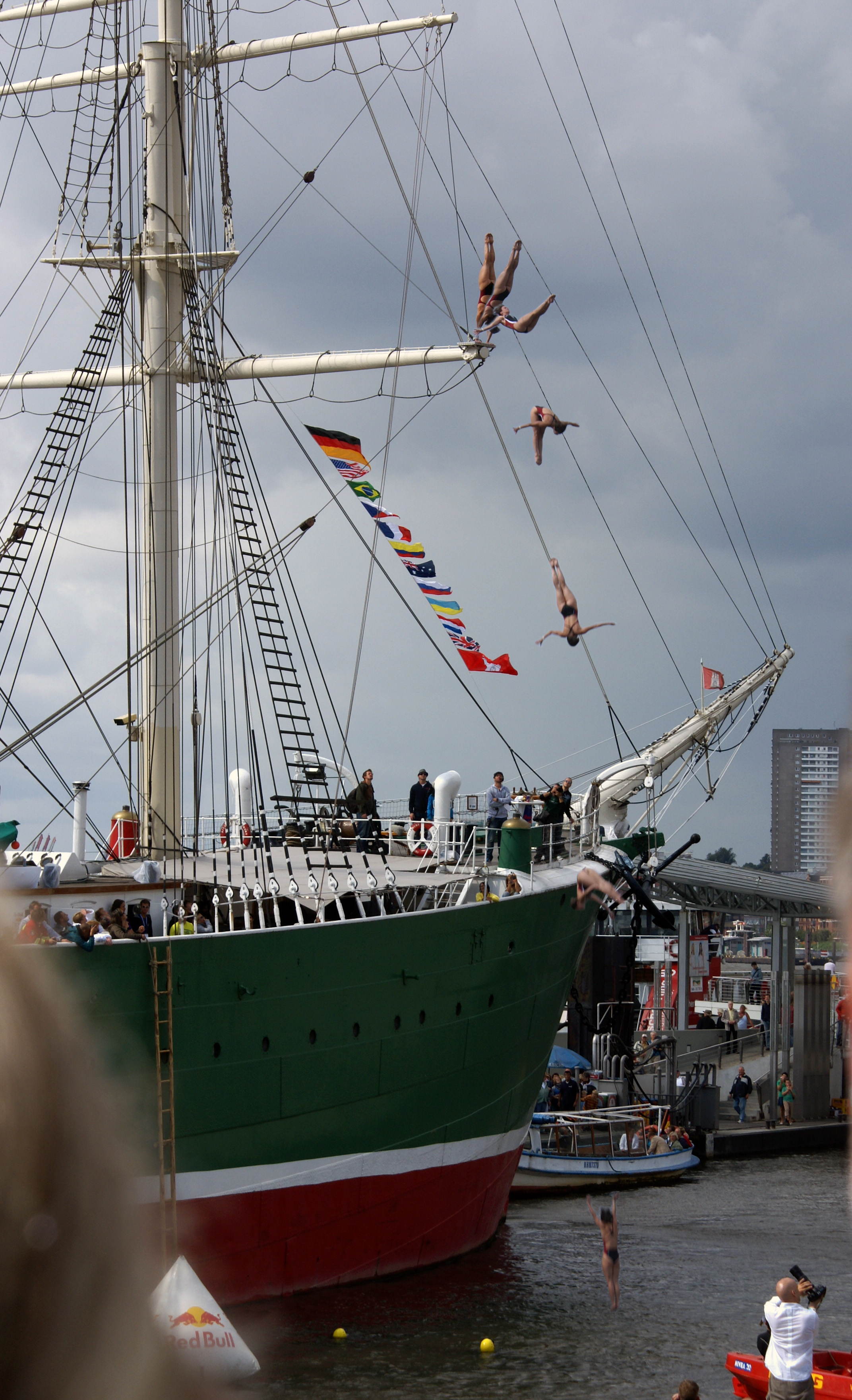 Red Bull Cliff Diving Hamburg 2009 Anna Bader